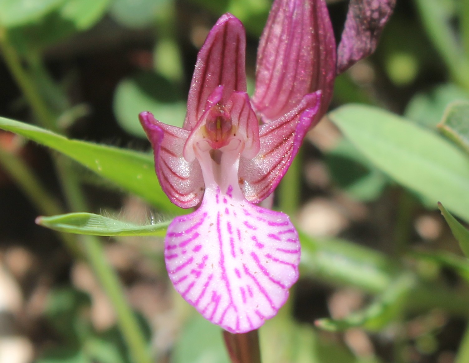 Anacamptis papilionacea labellum